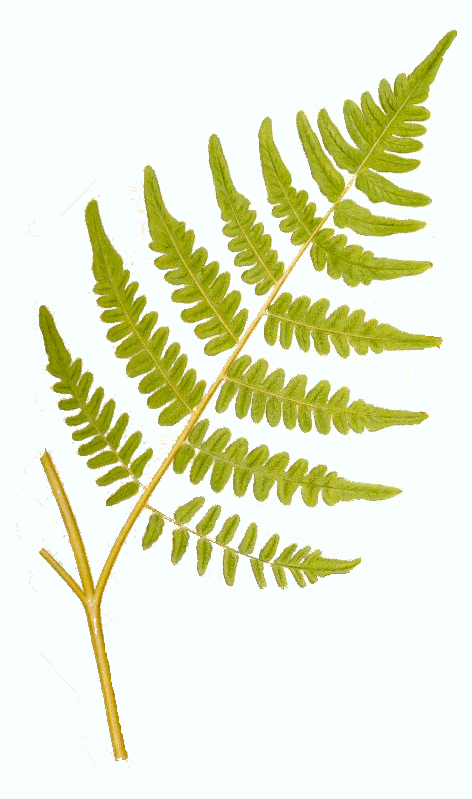 Leaf of a Fern (Pteridium aquilinum)